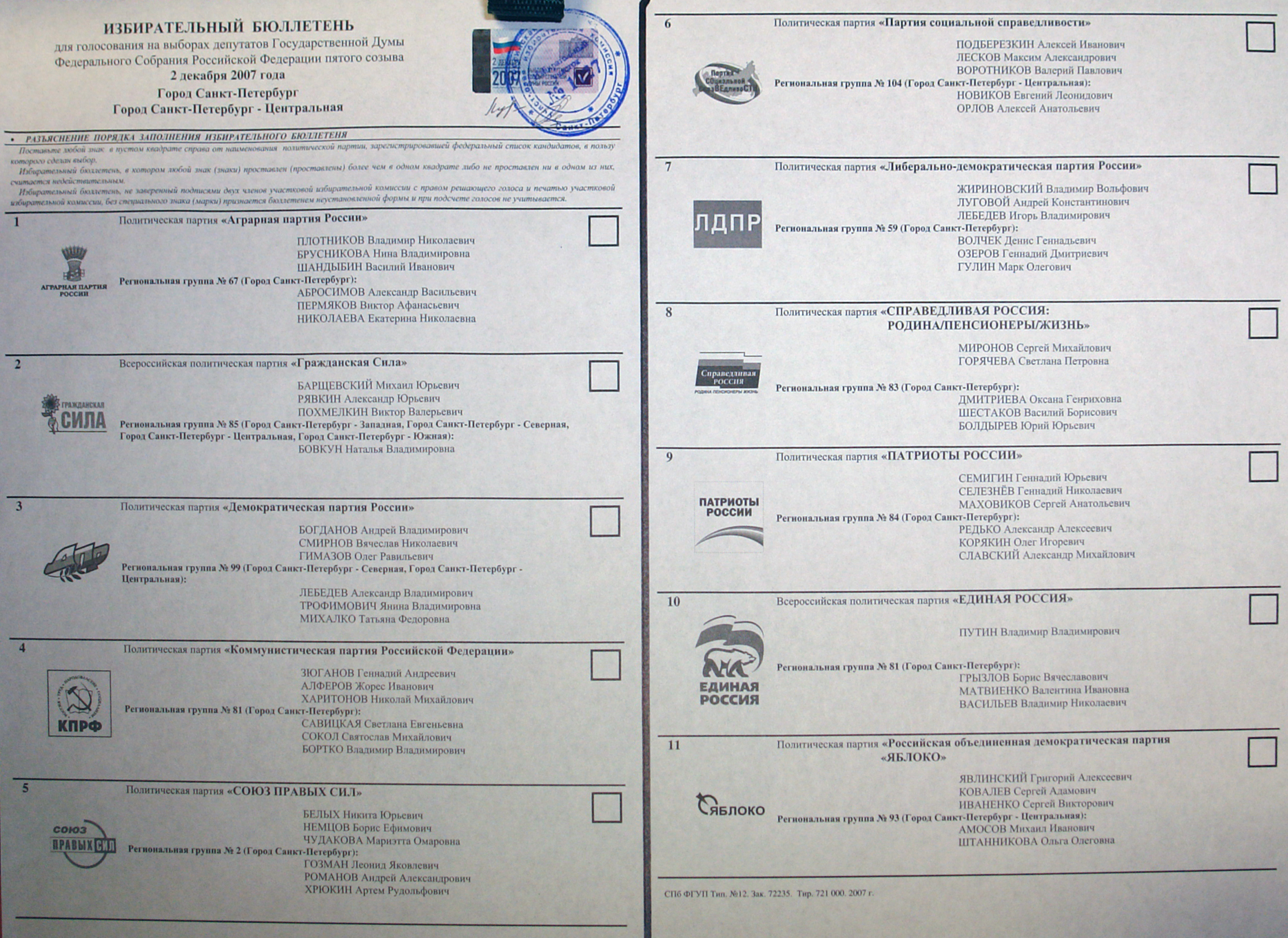 Ballot paper from 2007 legislative elections to the 5th State Duma in Russia